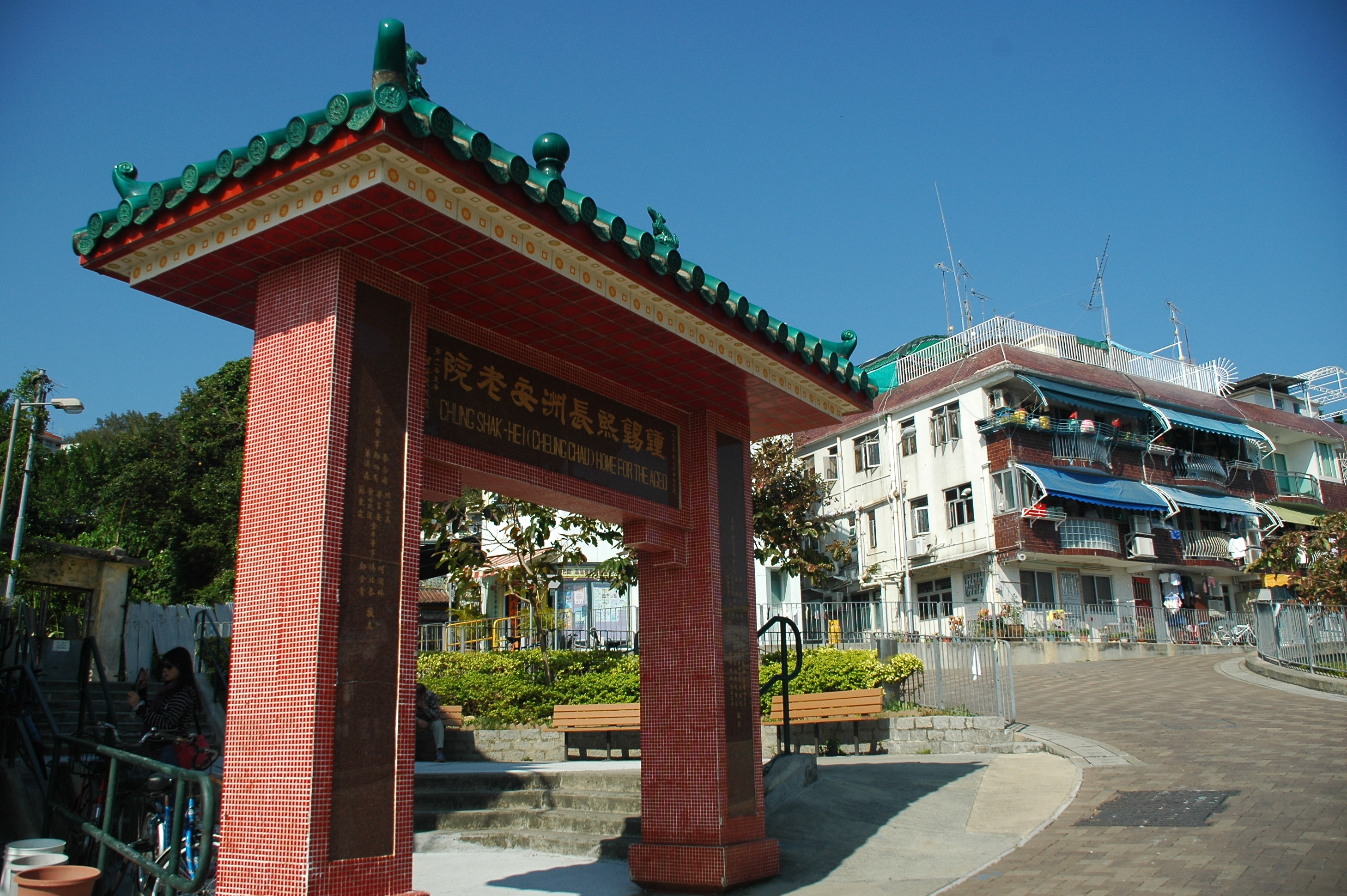 Chung Shak-Hei (Cheung Chau) Home for the Aged, Cheung Chau, New Territories, Hong Kong.